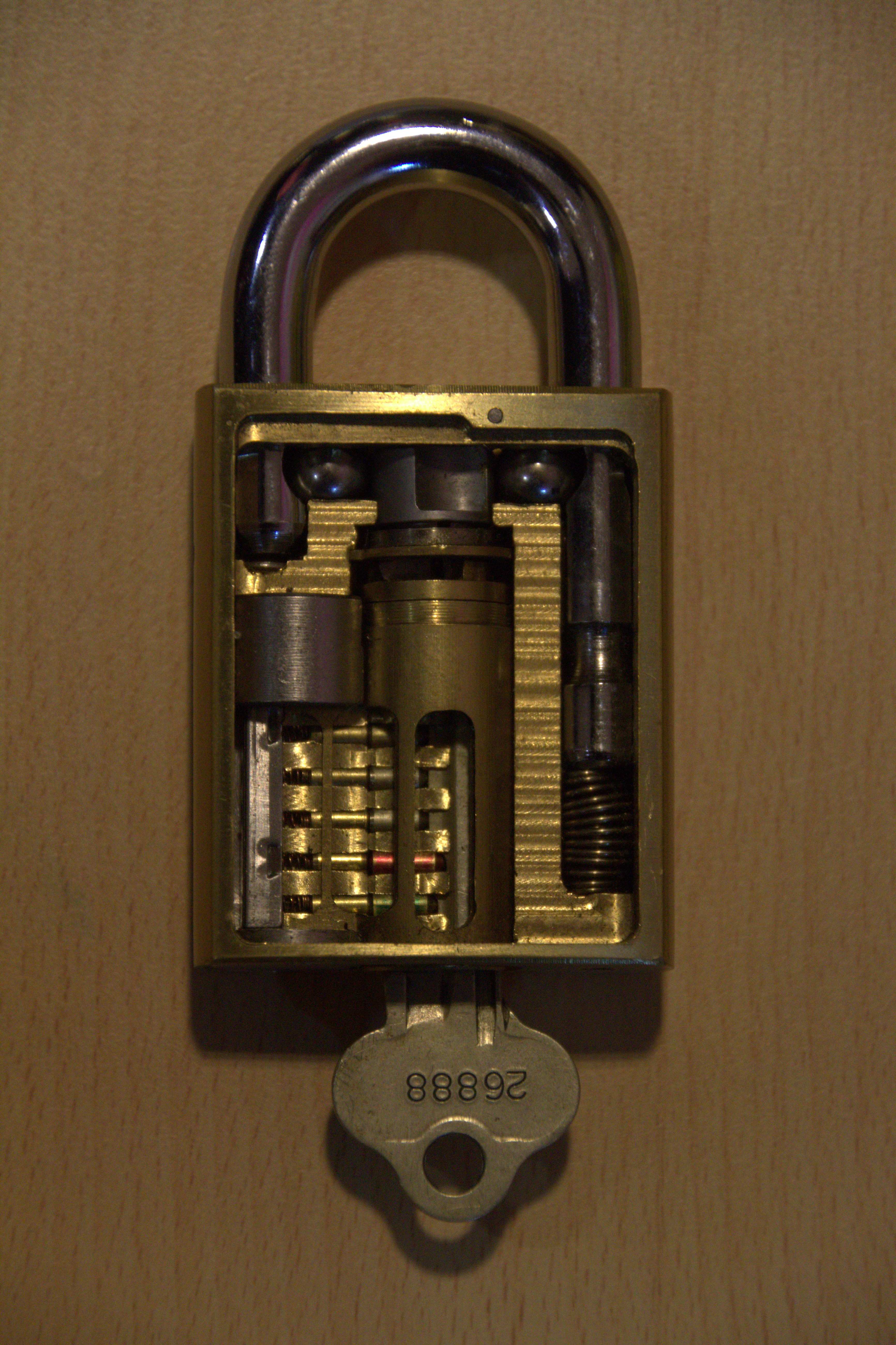 Double Ball Cutaway Padlock